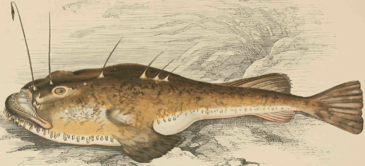 Lophius piscatorius